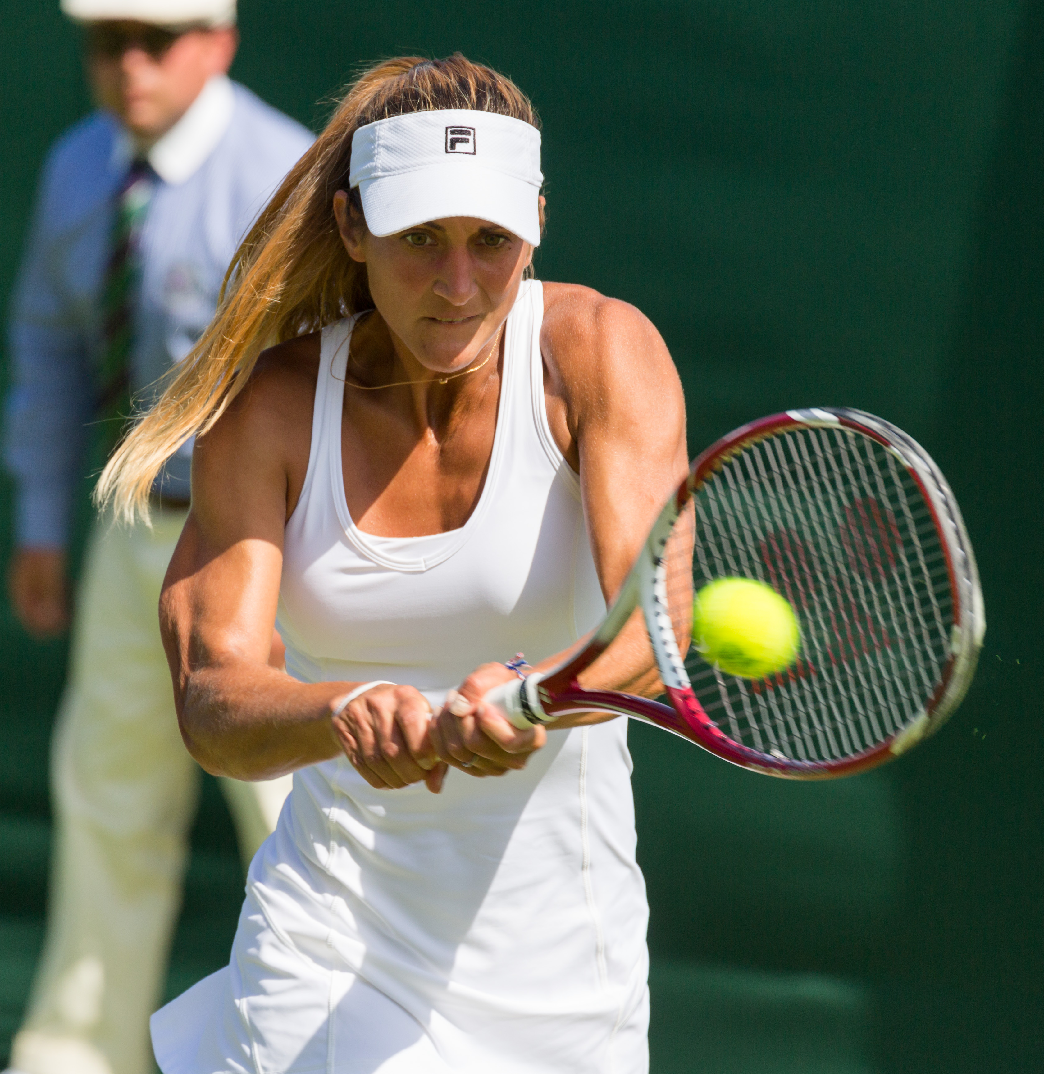 Edina Gallovits-Hall competing in the first round of the 2015 Wimbledon Championships.